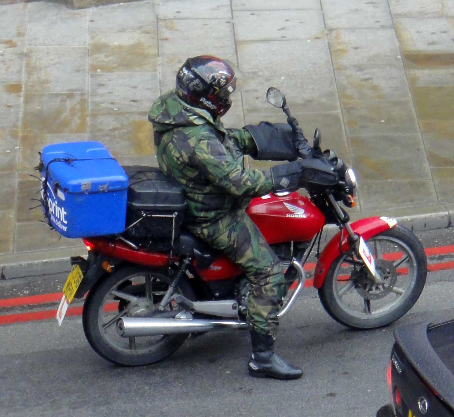 Delivery guy in camouflage dress on a Honda motorcycle, London downtown. It's a dangerous delivery guy because he has a skeleton on his helmet.